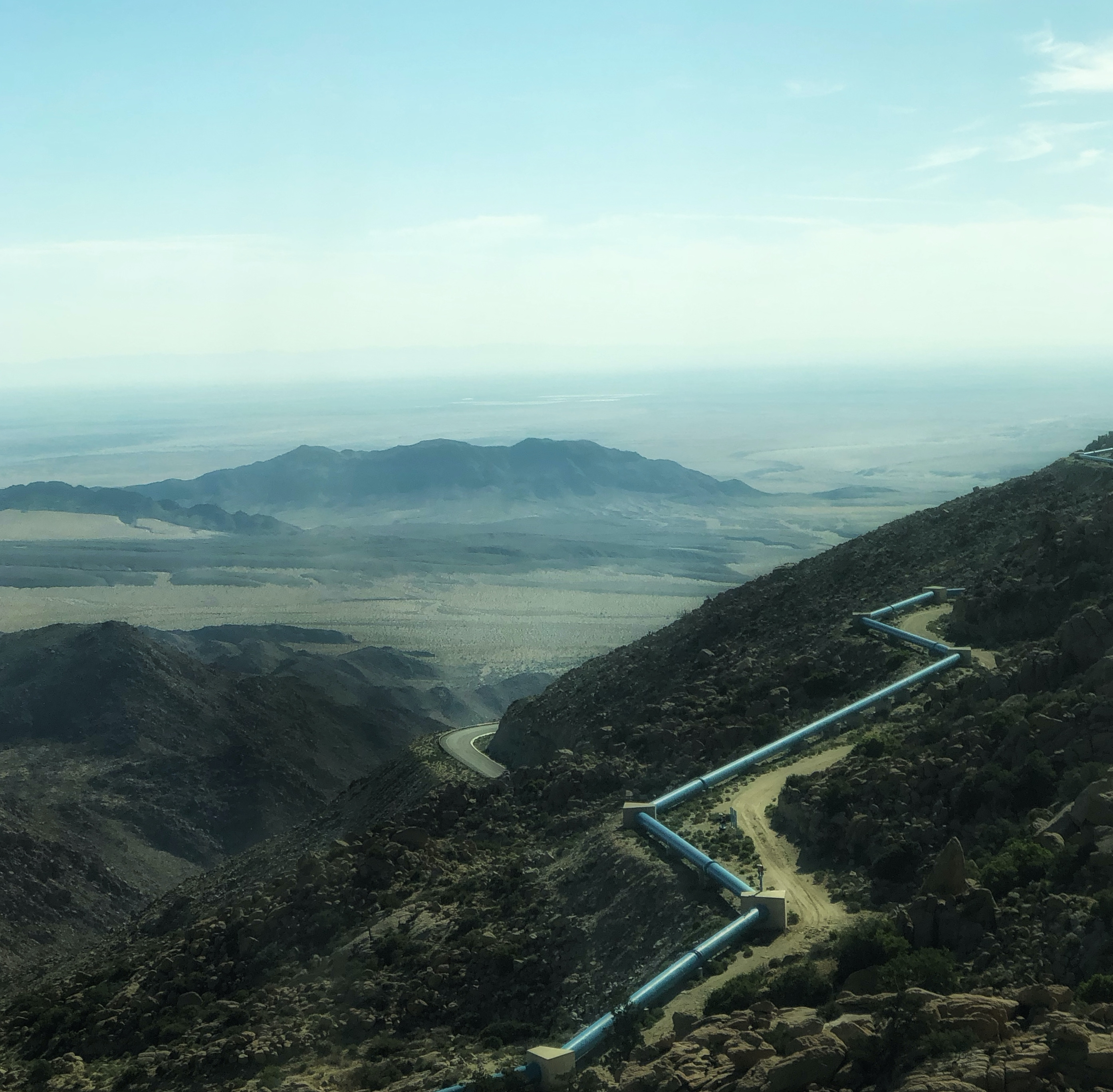 A photo of the Imperial Valley taken from the highway between TIjuana and Mexicali looking north.